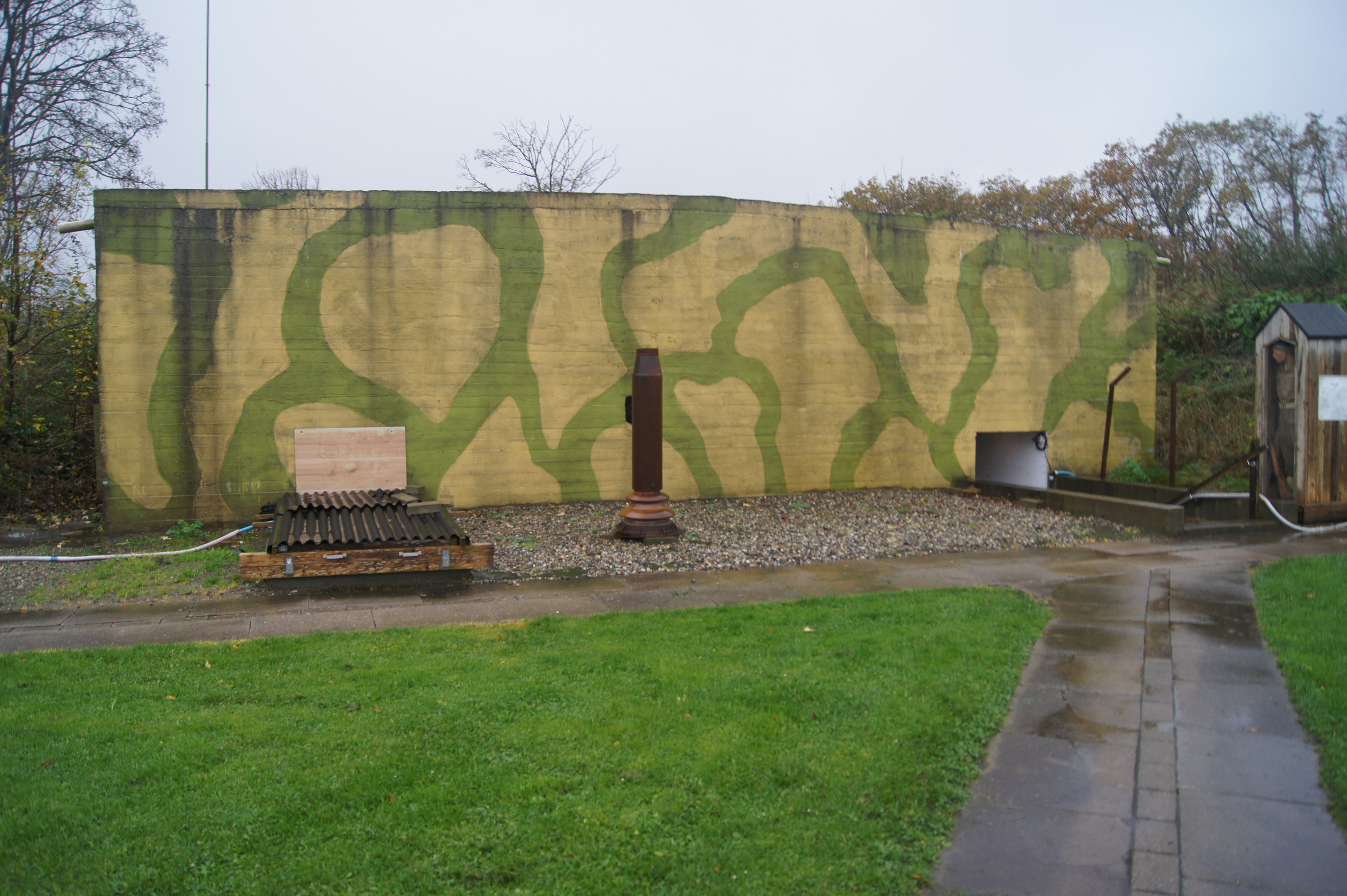 Entrance to the Luftwaffe command bunker, turned museum at Aalborg Forsvars- og Garnisonsmuseum